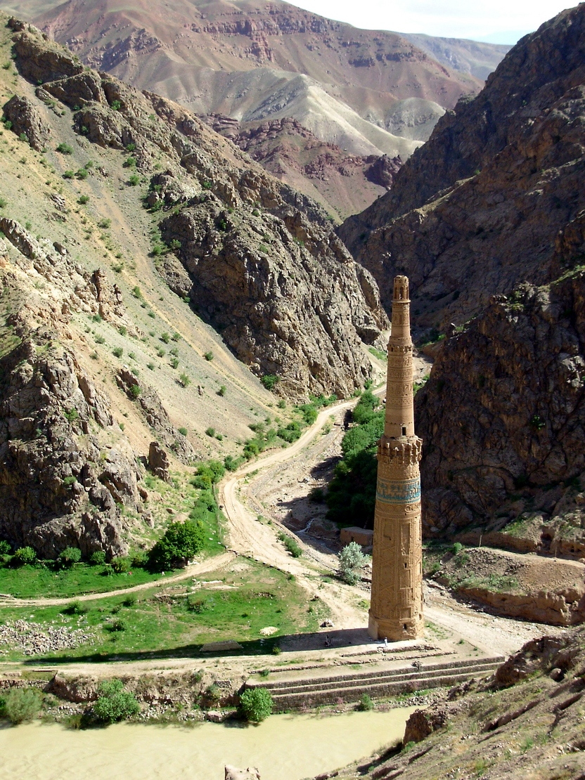 Jam_afghan_architecture_harirud_brick